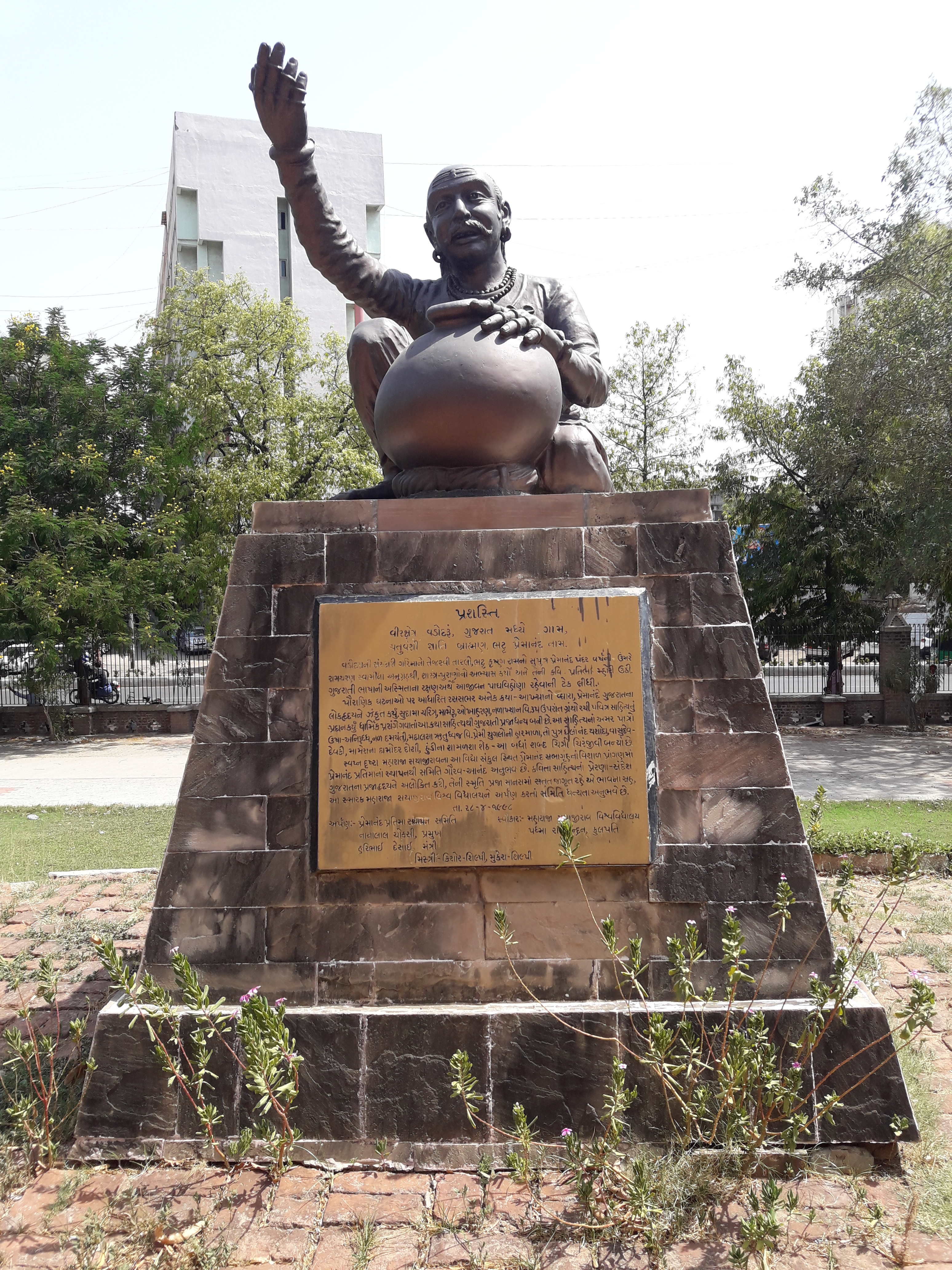 Bust of Gujarati poet Premanand Bhatt placed near Faculty of Arts in M. S. University, Vadodara, Gujarat.